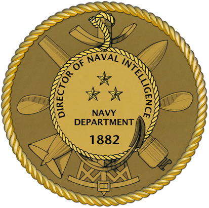 Director of Naval Intelligence Seal